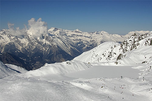 Ski slopes at Lac des Vaux, in the Verbier area, Valais, Switzerland.